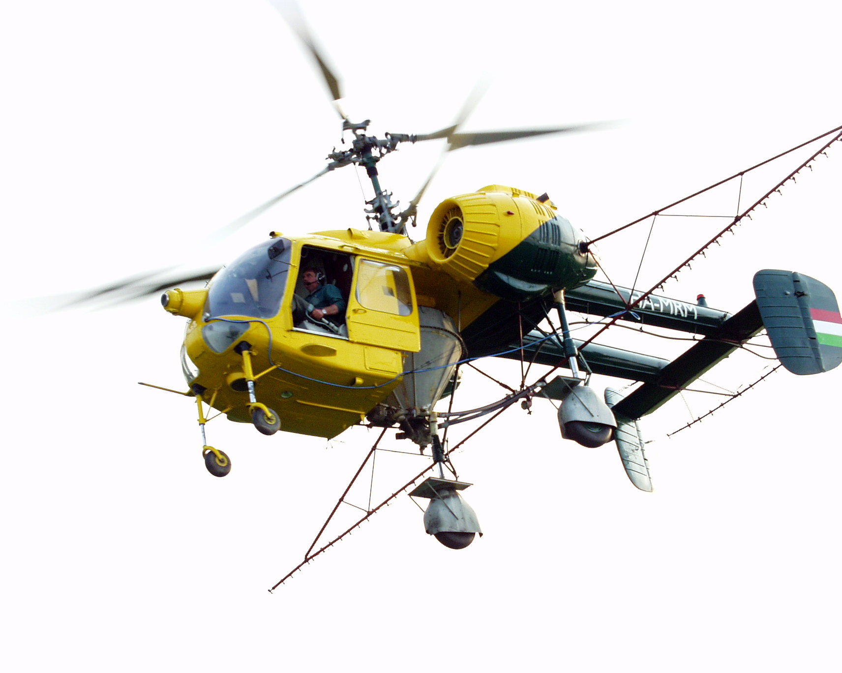 Ka-26 helicopter over airport (Békéscsaba, Hungary)